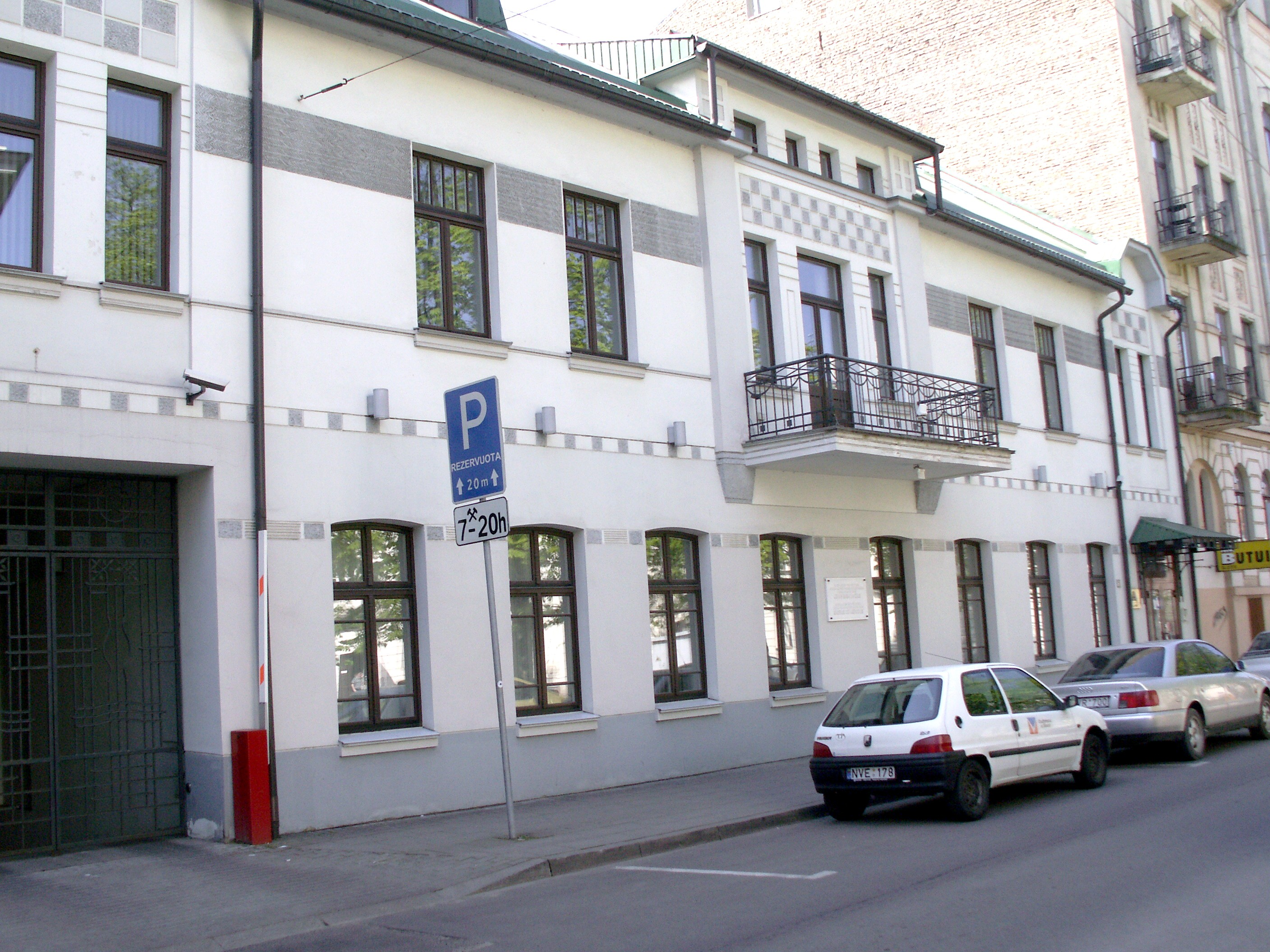 Vilnius, hous of A.Domaševišius and J.Basanavičius